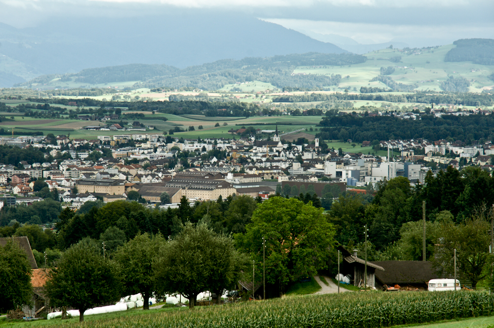 Hochdorf LU